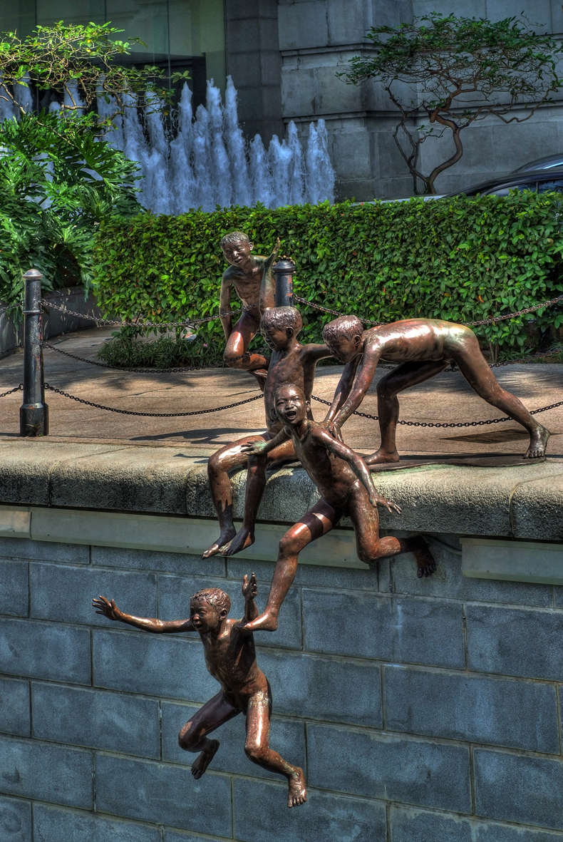 This interesting sculpture, called The First Generation (2000) by Chong Fah Cheong, depicts five boys jumping into the river, a typical scene along the Singapore River during the carefree days of the past. Location: Near Cavenagh Bridge and the entrance of The Fullerton Hotel Singapore.